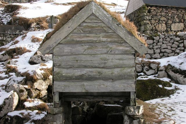 The old watermill, Skarvanes